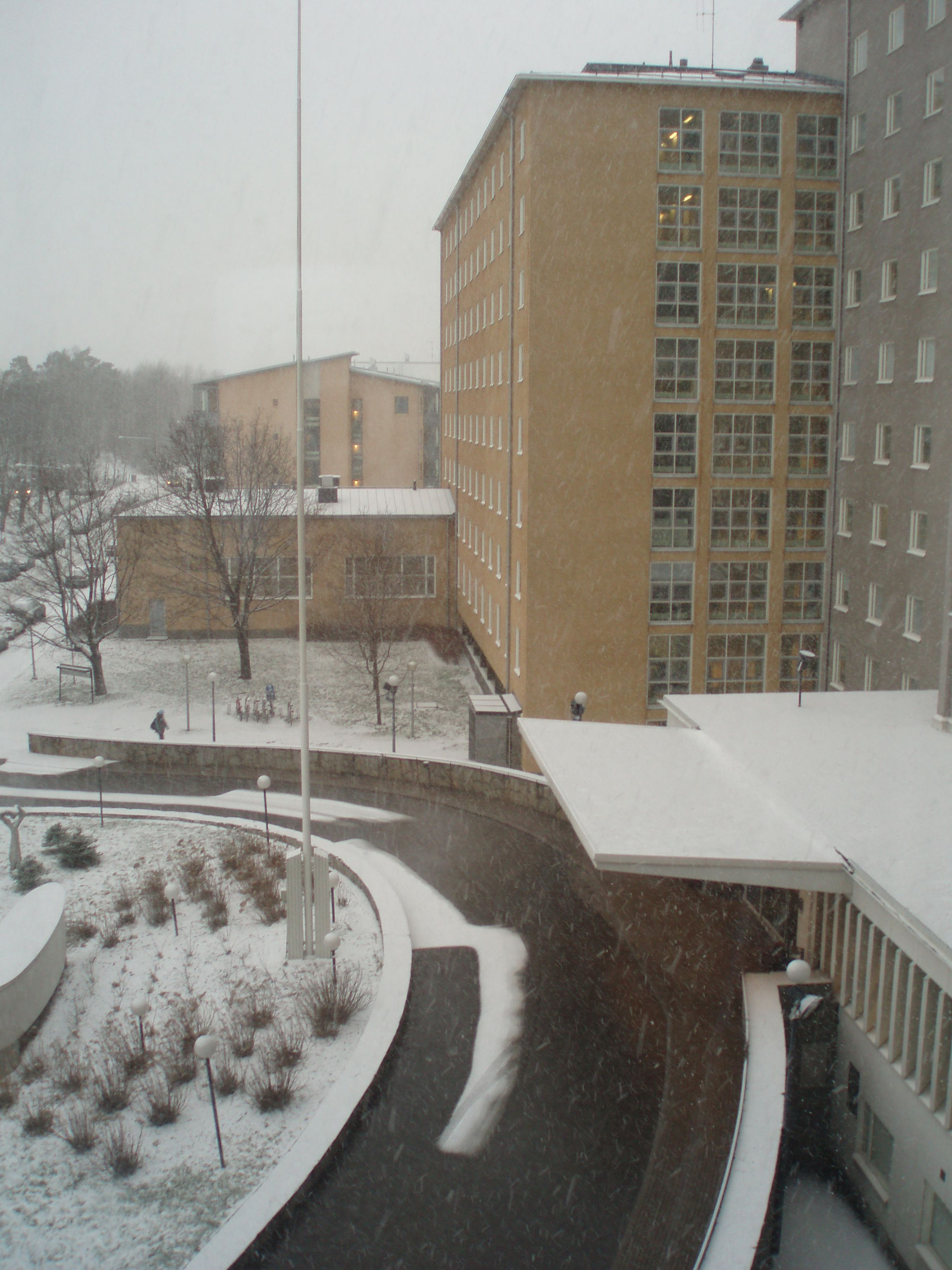 Kätilöopisto Maternity Hospital in Helsinki, Finland.